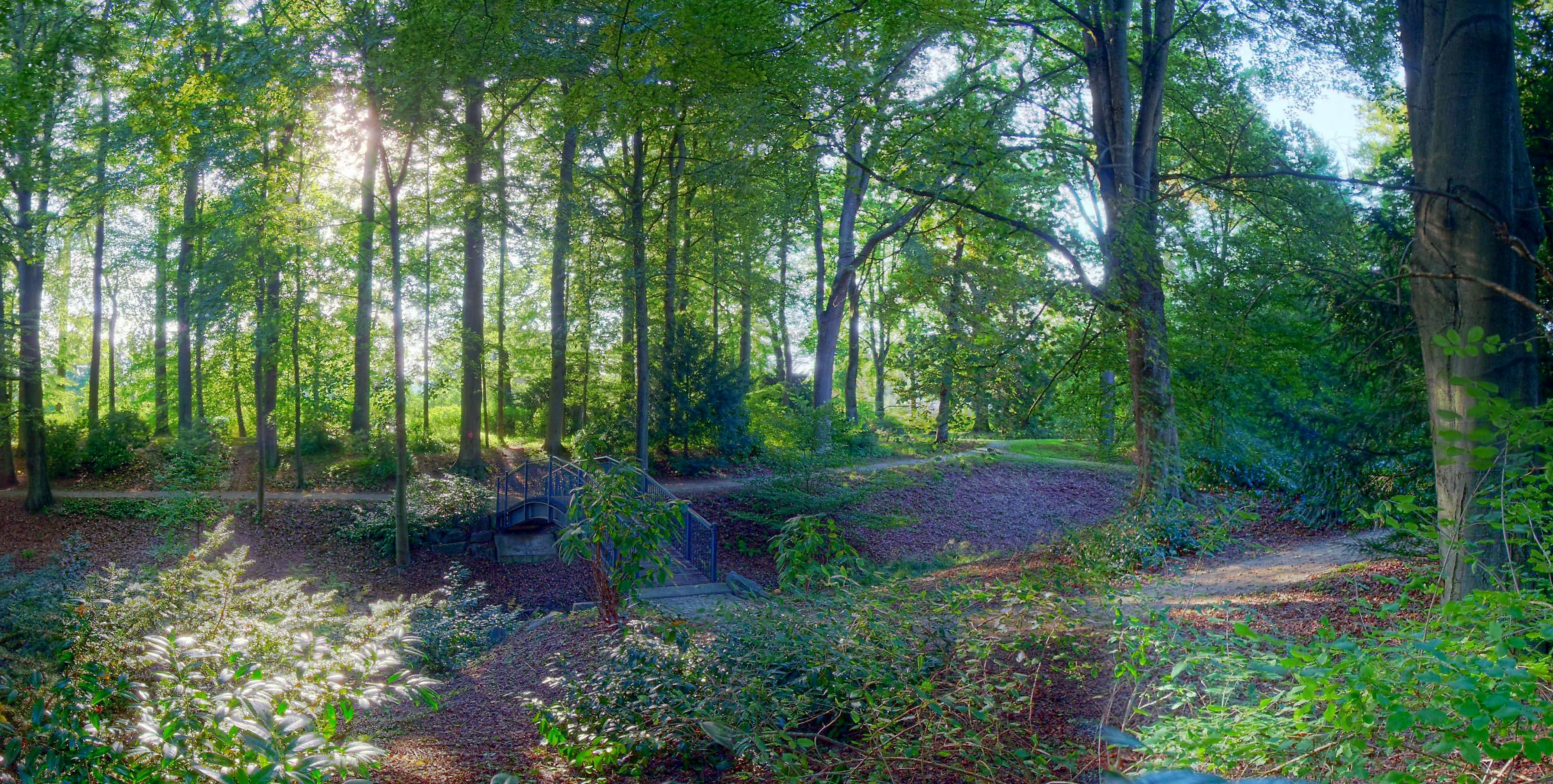 Forest with a little bridge in Dreslers Park at Kreuztal (Germany)